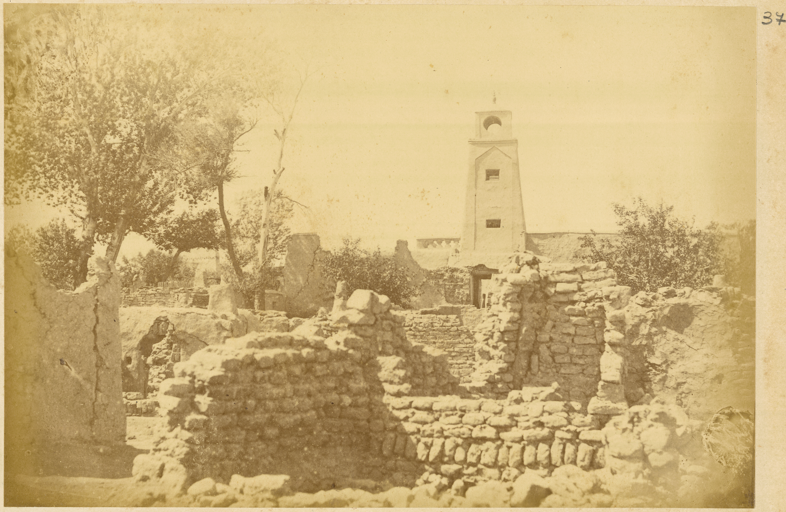 In 1874-75, the Russian government sent a research and trading mission to China to seek out new overland routes to the Chinese market, report on prospects for increased commerce and locations for consulates and factories, and gather information about the Dungan Revolt then raging in parts of western China. Led by Lieutenant Colonel Iulian A. Sosnovskii of the army General Staff, the nine-man mission included a topographer, Captain Matusovskii; a scientific officer, Dr. Pavel Iakovlevich Piasetskii; Chinese and Russian interpreters; three non-commissioned Cossack soldiers; and the mission photographer, Adolf Erazmovich Boiarskii. The mission proceeded from Saint Petersburg to Shanghai via Ulan Bator (Mongolia), Beijing, and Tianjin, and then followed a route along the Yangtze River, along the Great Silk Road through the Hami oasis, to Lake Zaysan, back to Russia. Boiarskii took some 200 photographs, which constitute a unique resource for the study of China in this period. Most of the photographs are included in this album, which later became part of the Thereza Christina Maria Collection assembled by Emperor Pedro II of Brazil and given by him to the National Library of Brazil. Memory of the World; Minarets; Mosques; Ruins